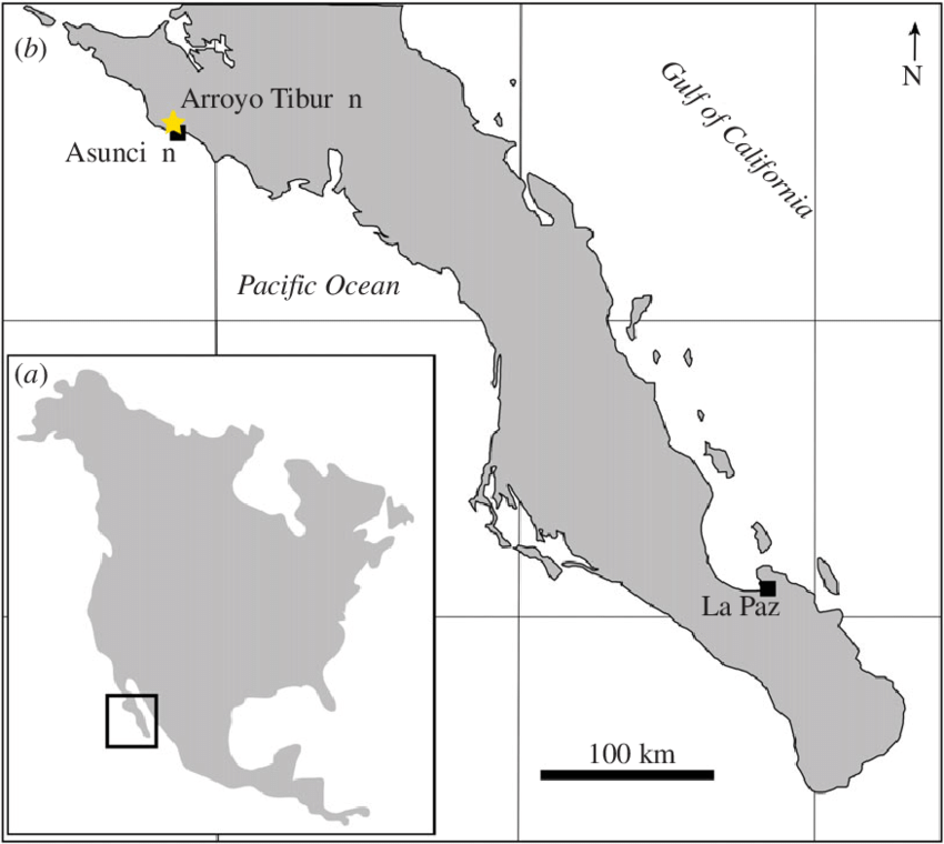 Map of North America (a) showing the general study area for fossils of Nanodobenus and map of Baja California Sur